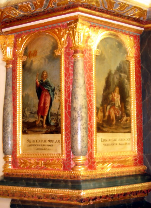 A component the pulpit of the Ev. church at municipality Nümbrecht. - Teil der Kanzel der Ev. Kirche in Nümbrecht. Author mrfinch Time of creation 29 Oct. 2004 Licence GNU FDL and CC-by-SA Camera Canon S 45